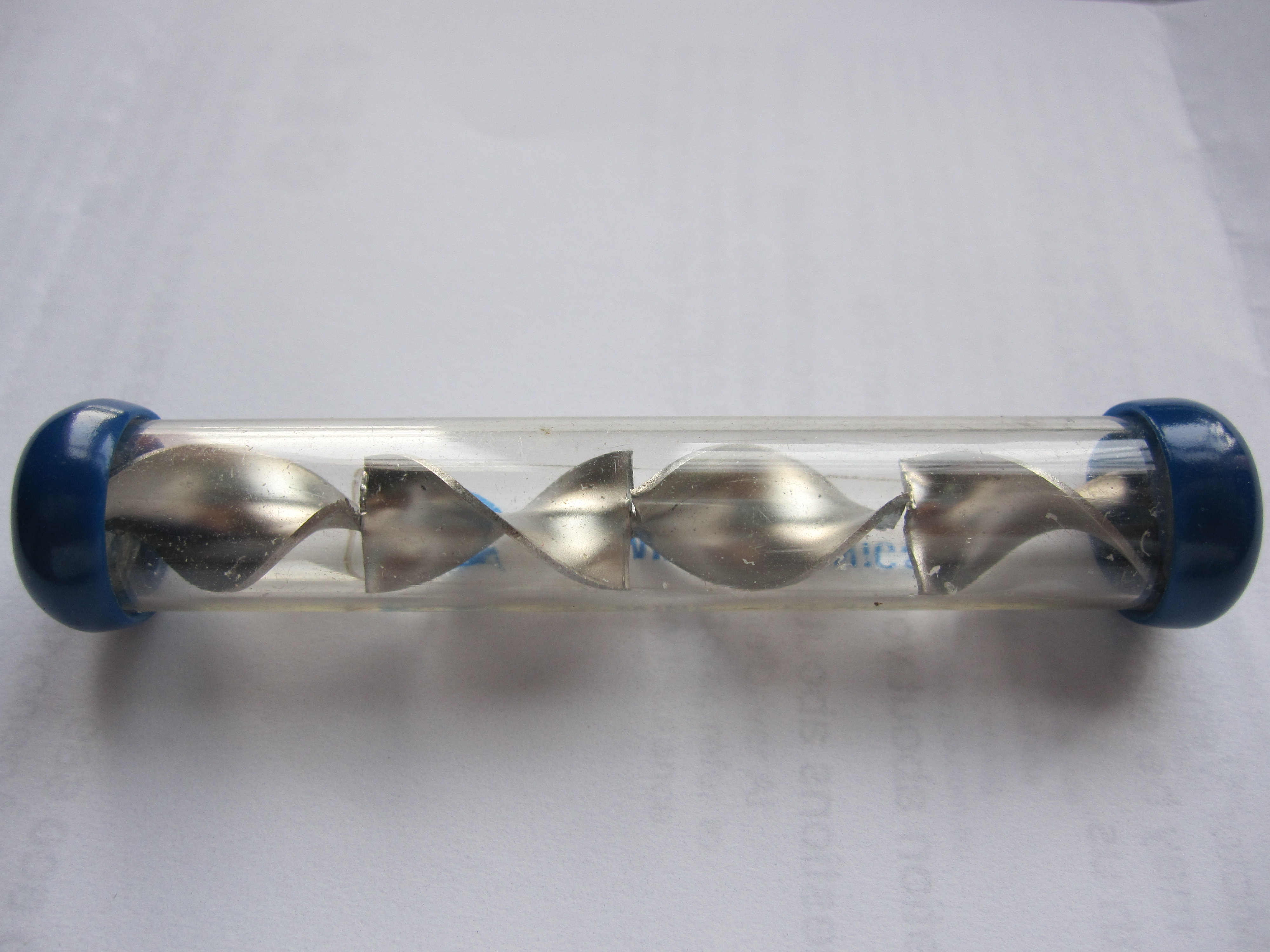 Photo of a Chemineer/Kenics static mixer - promotional merchandise